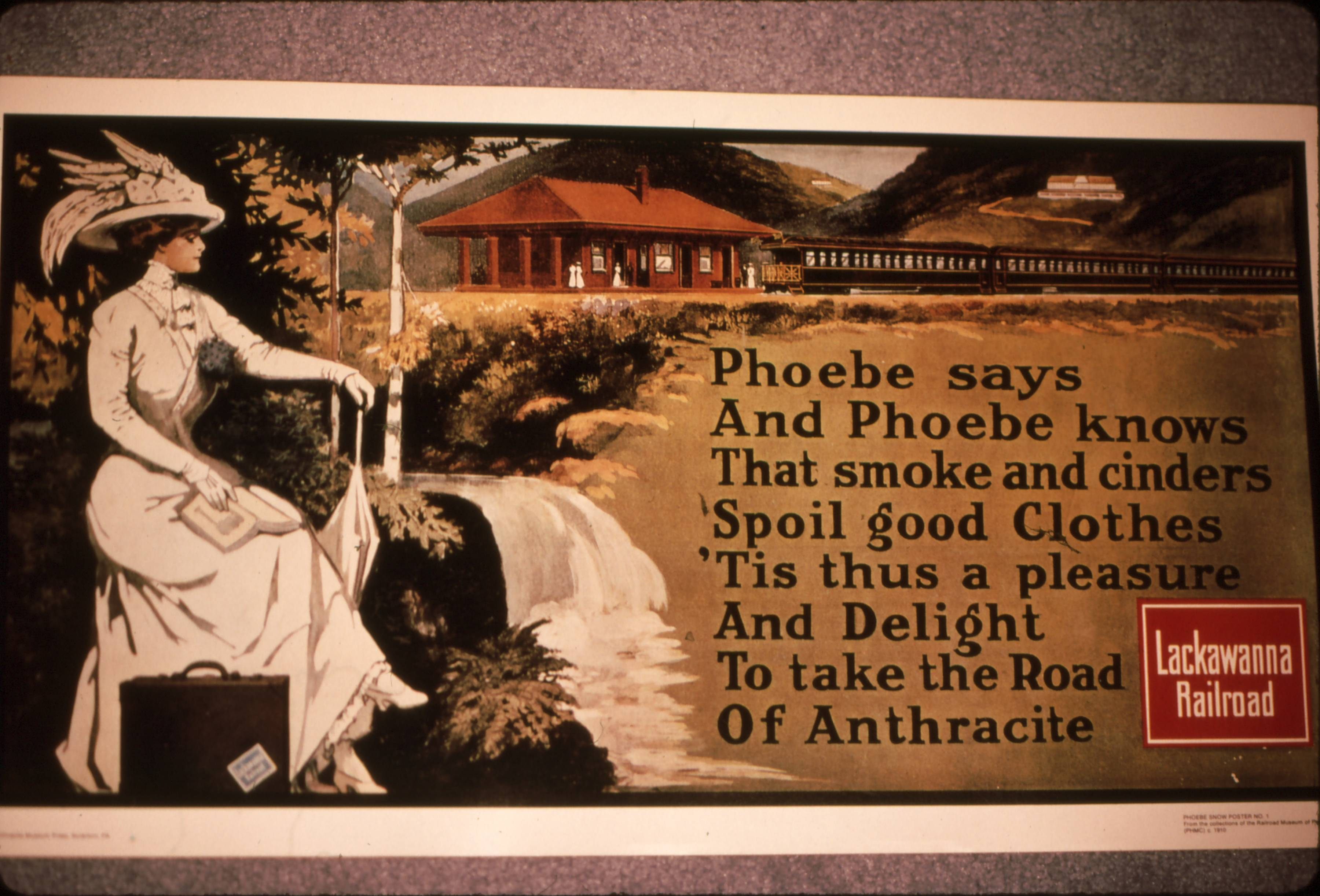 Chuck Walsh